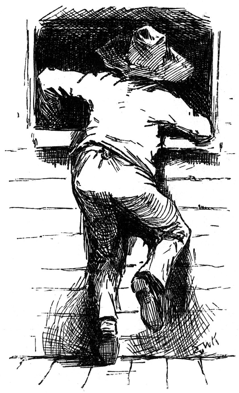 Huck Stealing Away